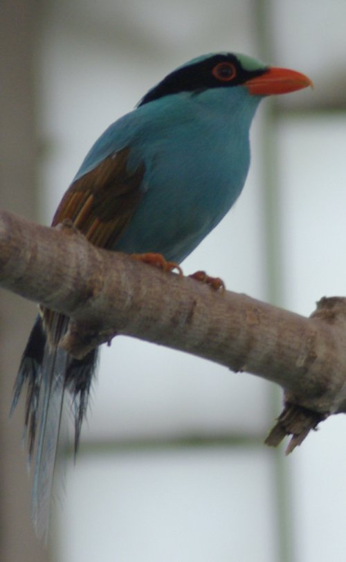 Green Magpie, National Zoo, Washington DC, USA. Its tail feathers are heavily worn.